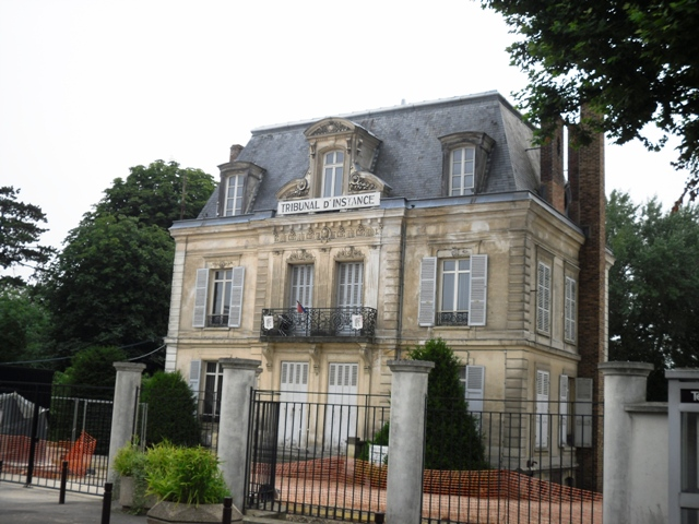 Court in Longjumeau, Essonne, France